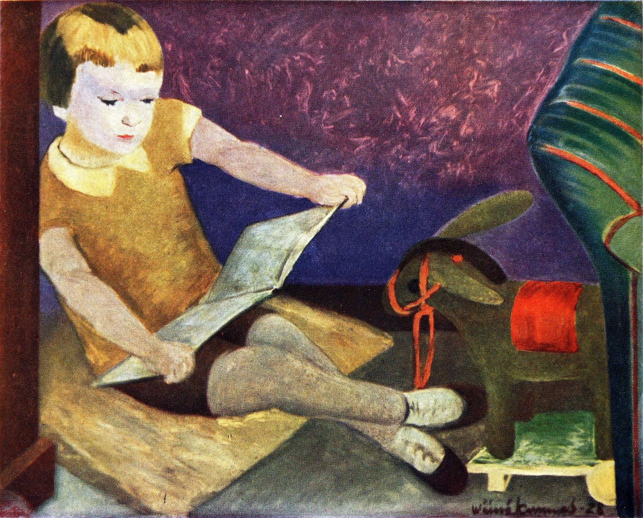 Kirsin satunurkka (Kirsi´s fairytale corner) by Finnish painter Väinö Kunnas (1928). The little girl in the painting – Kirsi – is his daughter.